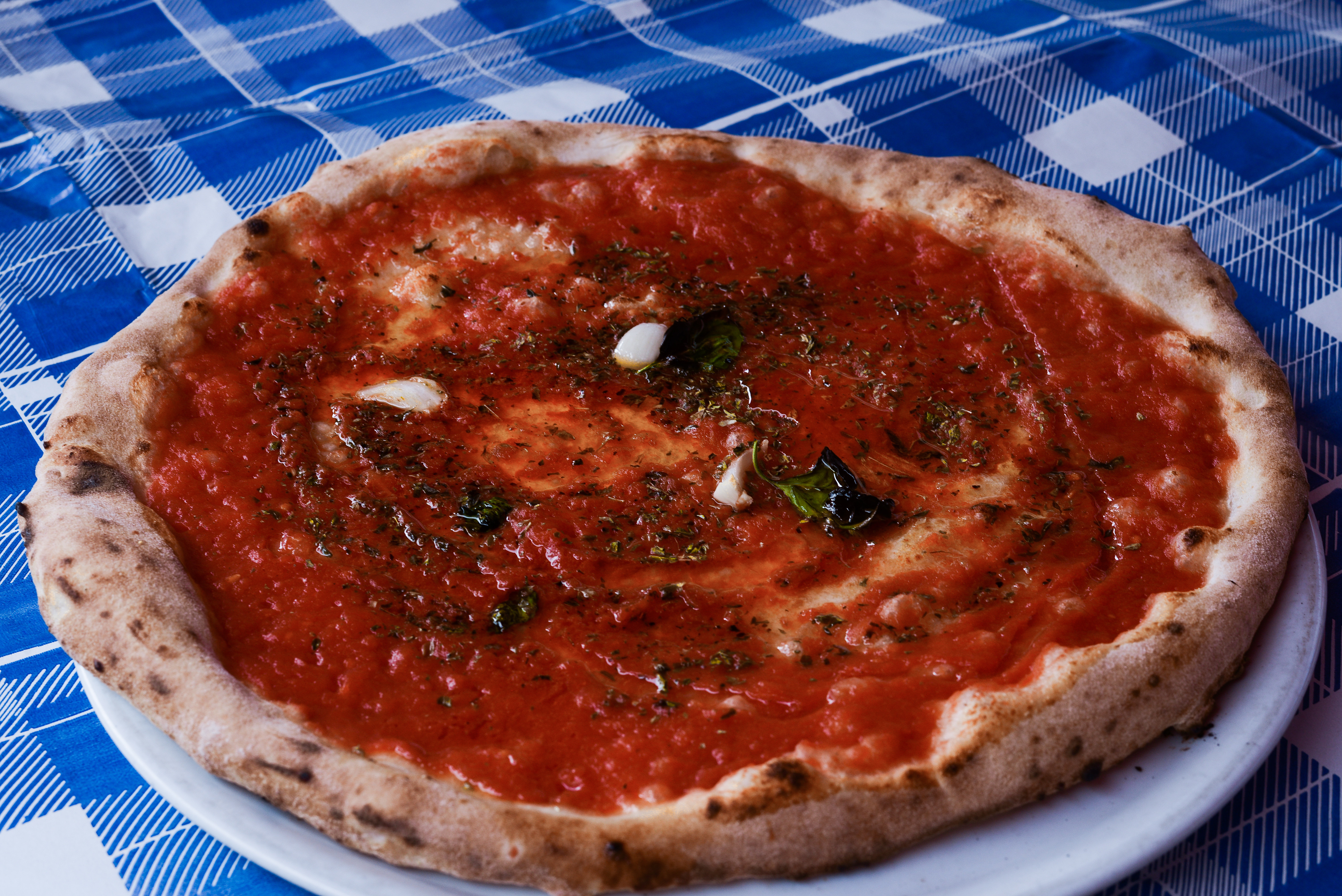 Neapolitan pizza marinara